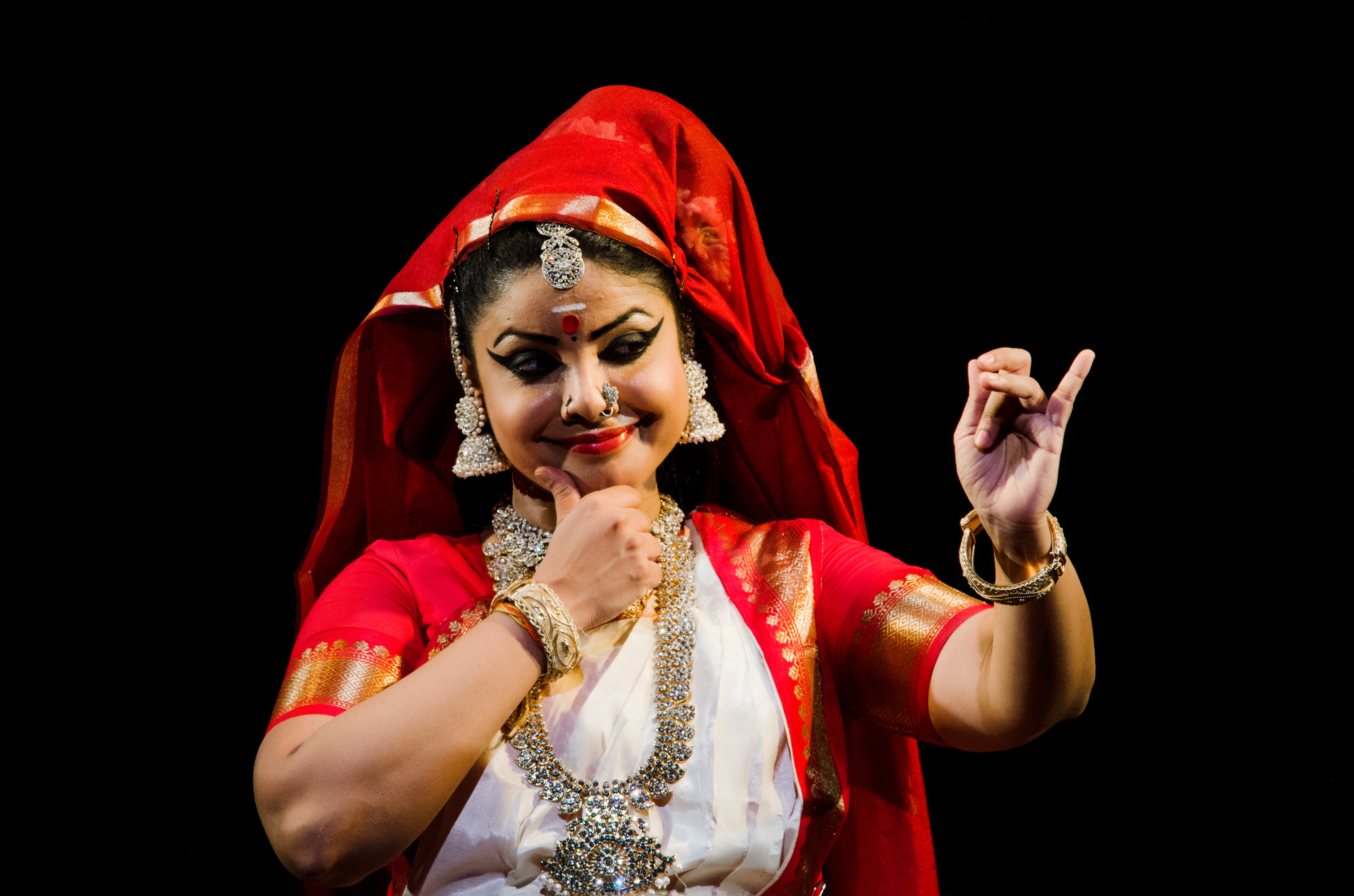 Mohiniyattam pose